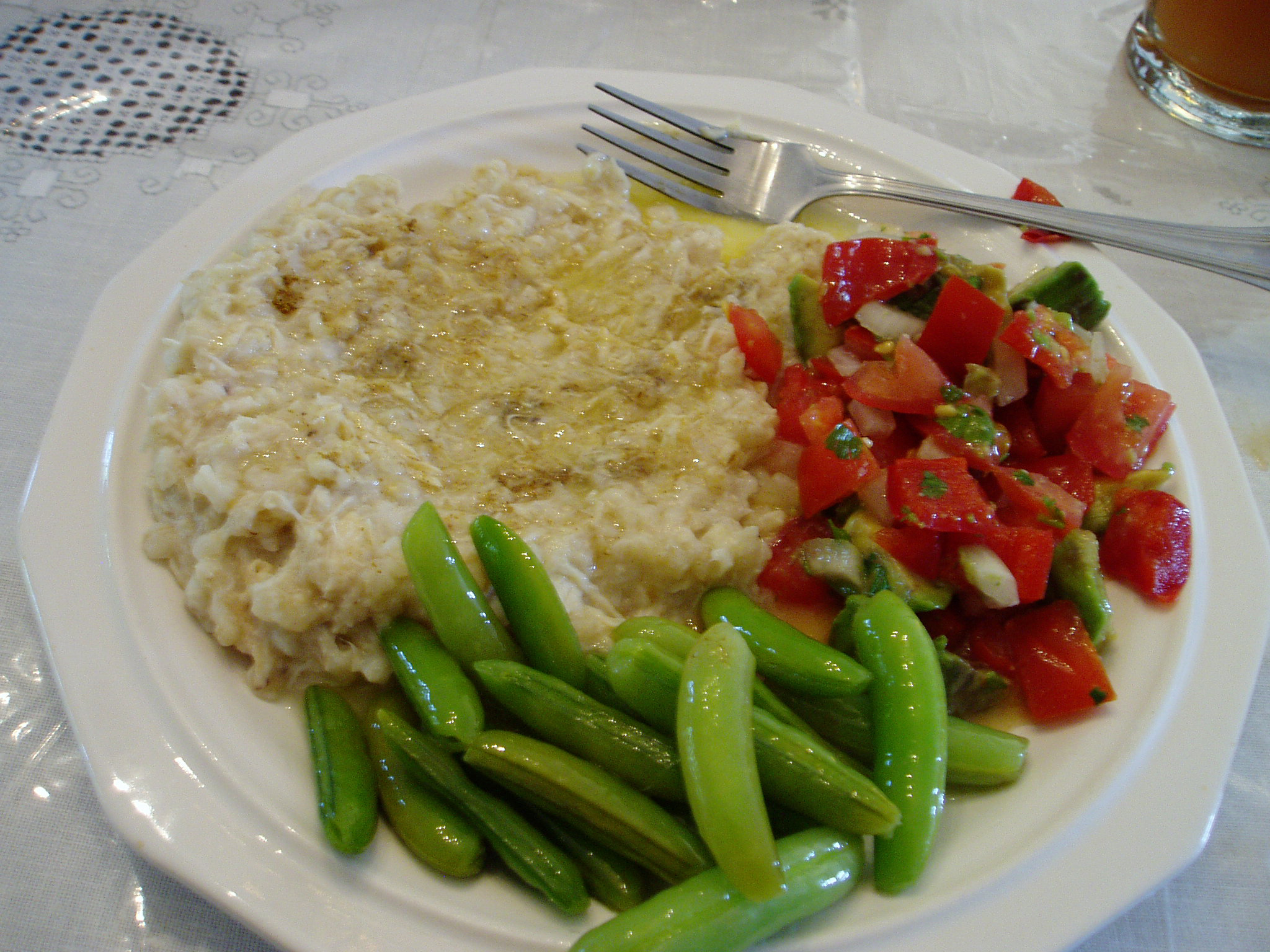 A photograph by User:Augustgrahl of home-made Harissa (dish) served with vegetables.